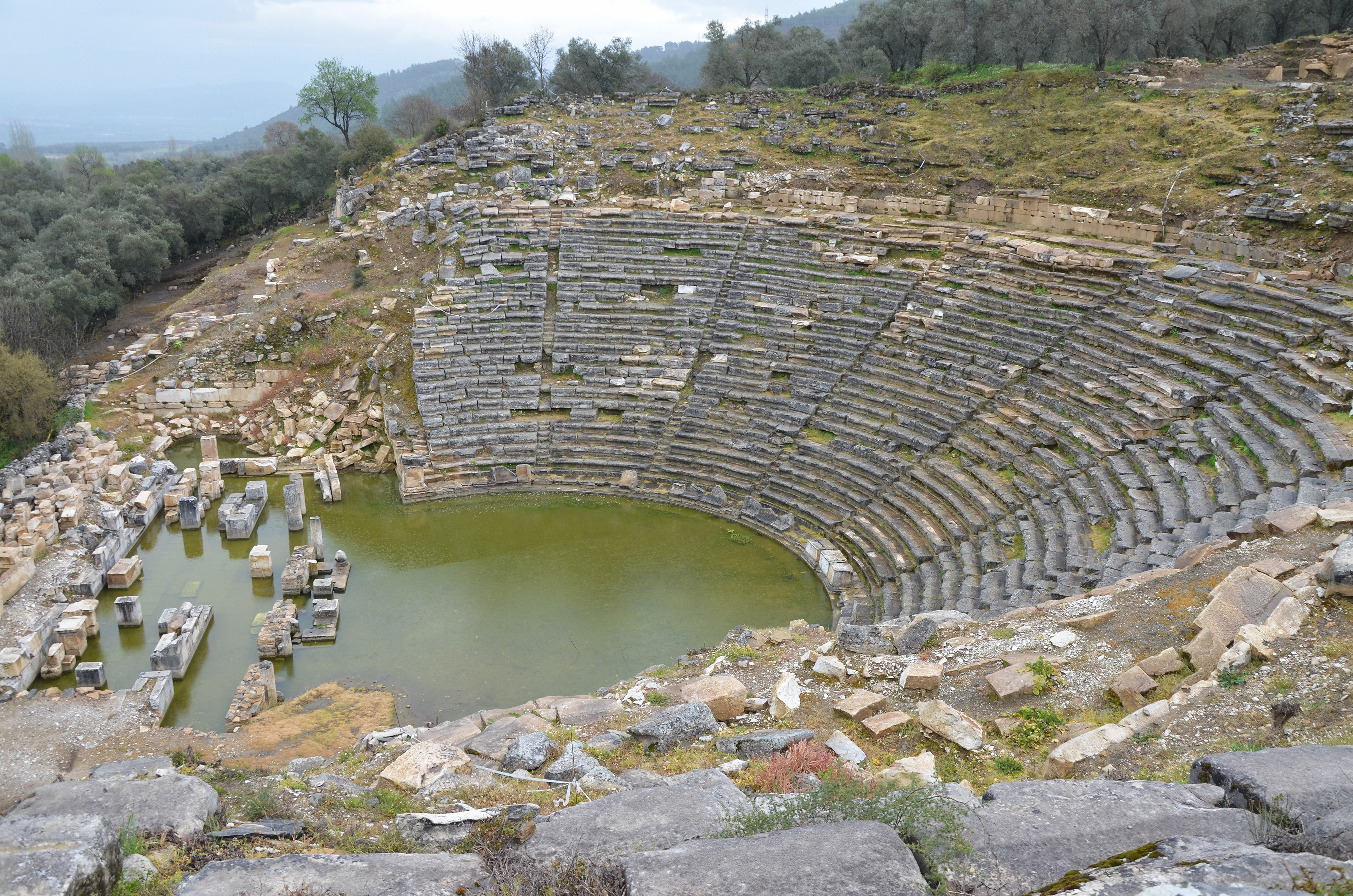 The theatre, erected in the Hellenistic period in the north slope of the south hill, its capacity was approximately 10,000 spectators, Caria, Turkey